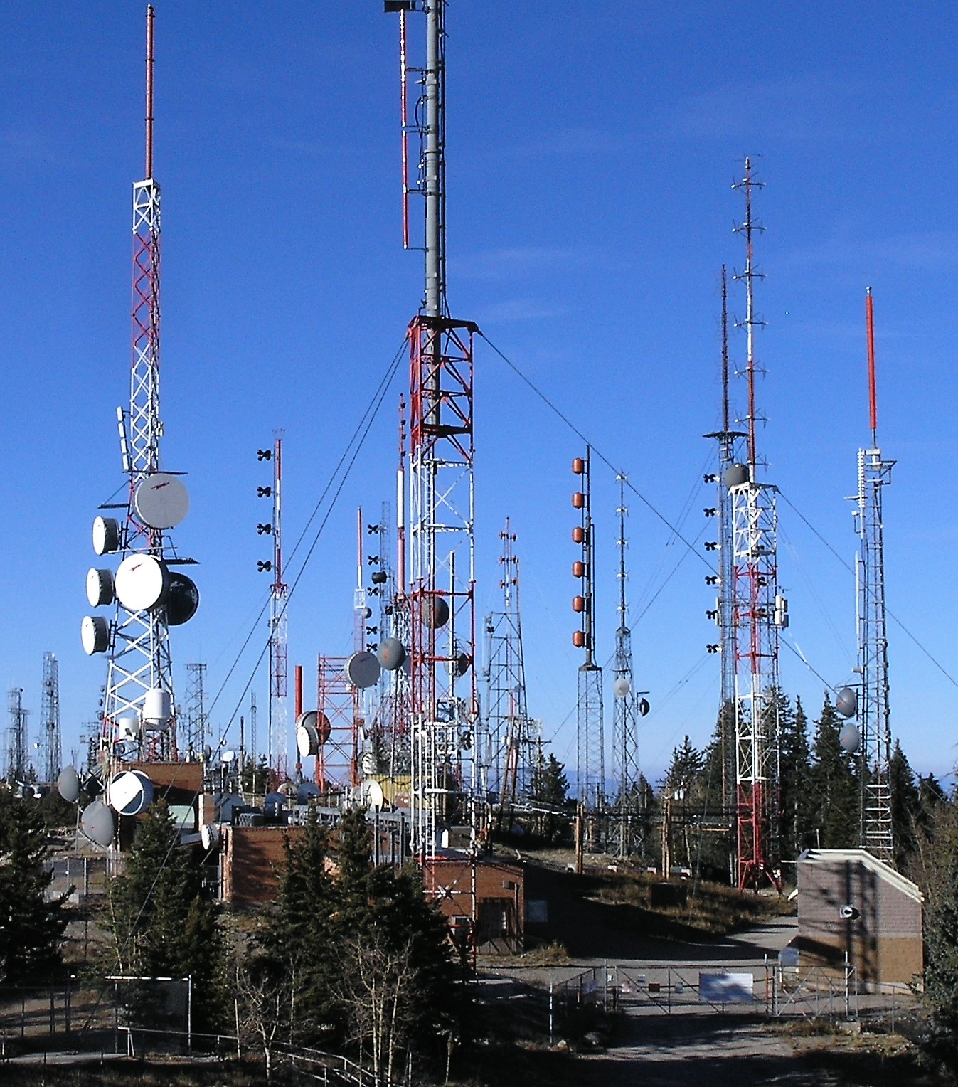 A variety of radio antennas on Sandia peak, near Albuquerque, New Mexico. Radio transmitting antennas are often located on the highest geographical point in the area, such as mountain peaks, to give them the maximum transmission range, resulting in antenna farms like this. The vertical rods are mainly whip antennas, often base station antennas used by dispatchers for land mobile radio systems for fire, police, ambulance, taxi, and delivery services. The multiple identical antennas strung in a vertical line along towers are VHF collinear array broadcasting antennas for FM and television stations. The large cylindrical antennas are shrouded parabolic dishes used for point-to-point microwave relay links for internet and telephone companies.